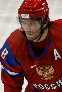 Alexander Ovechkin, Olympics 2010